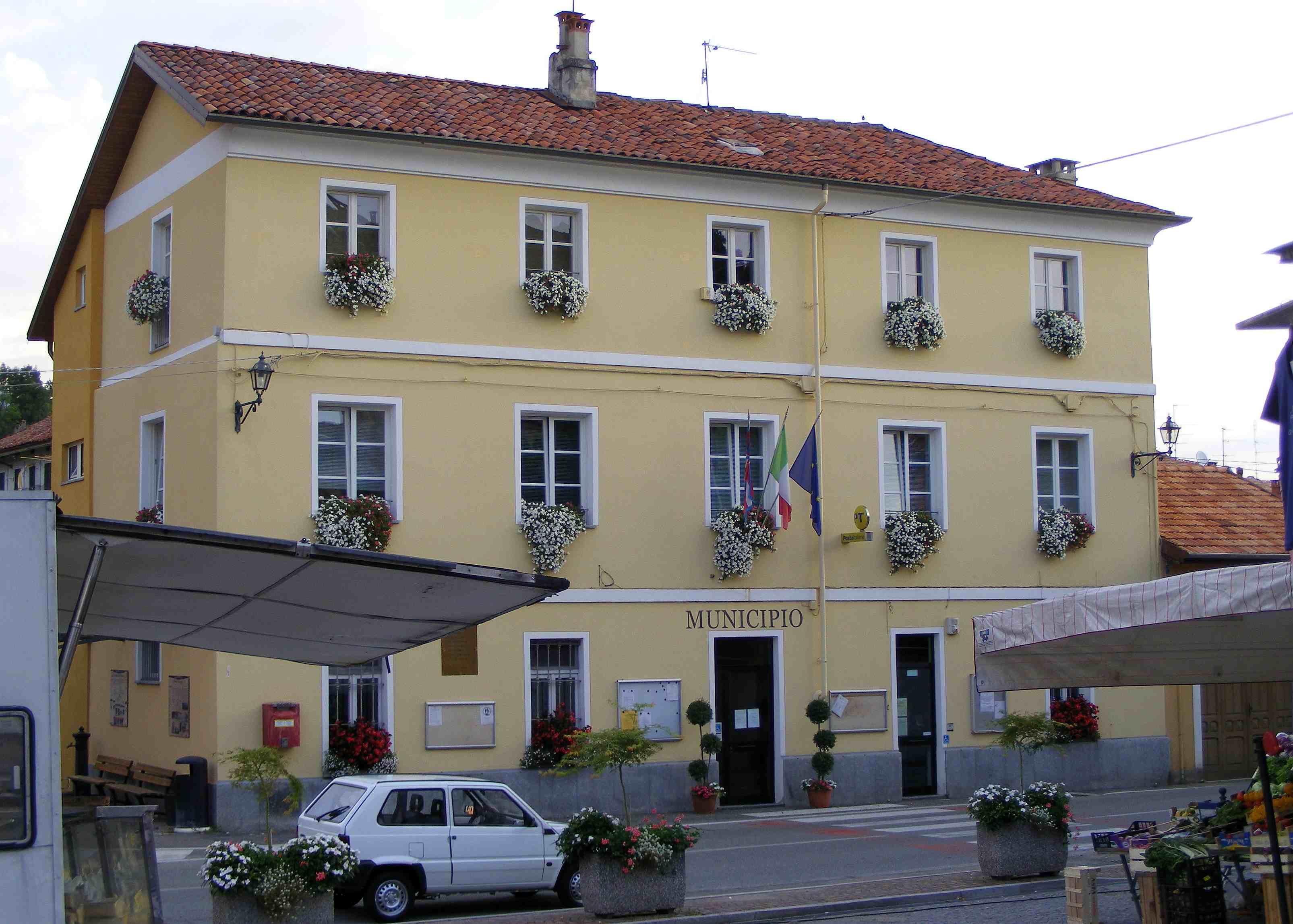 Ronco Biellese (BI, Italy): town hall